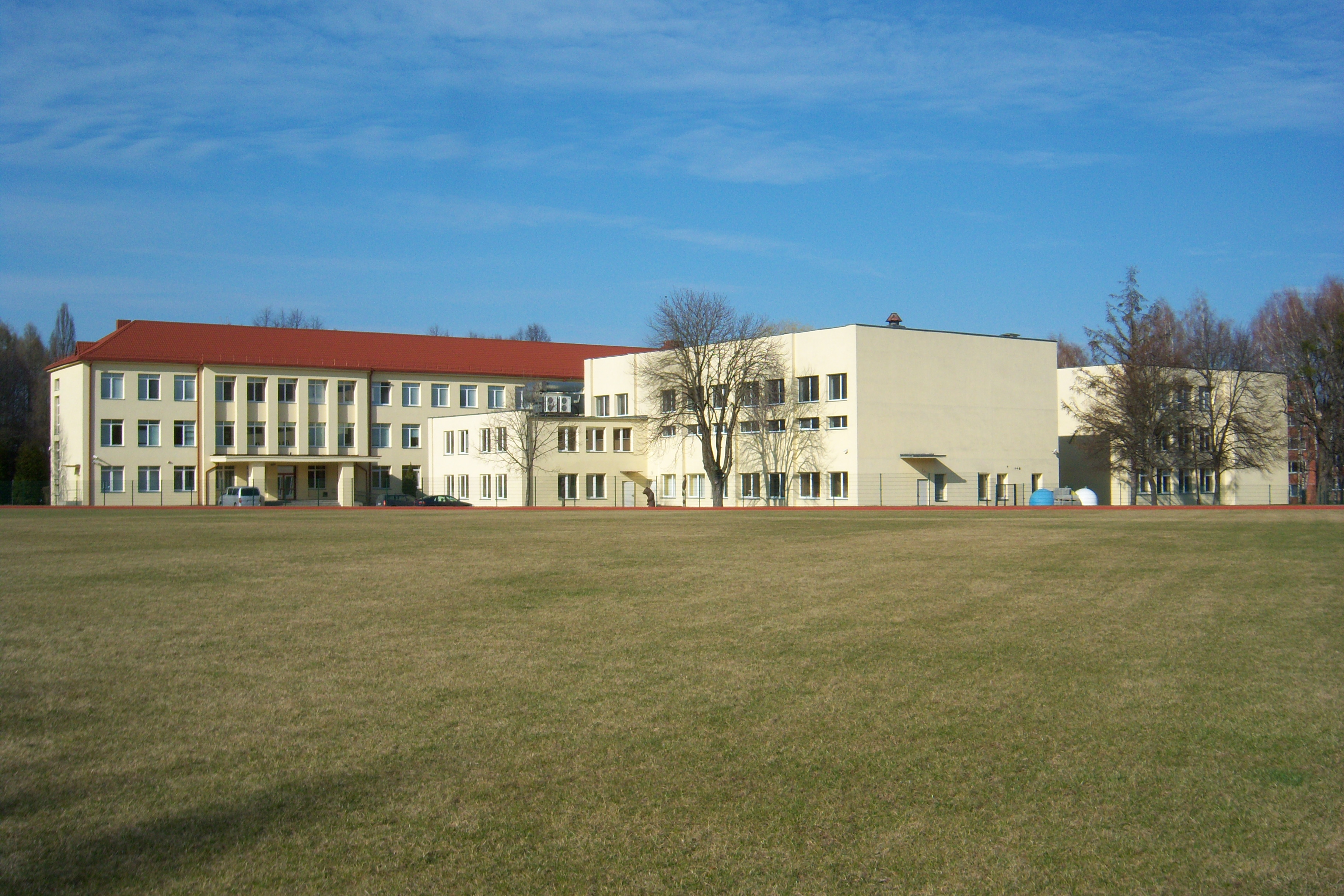 Gymnasium, Birštonas, Lithuania